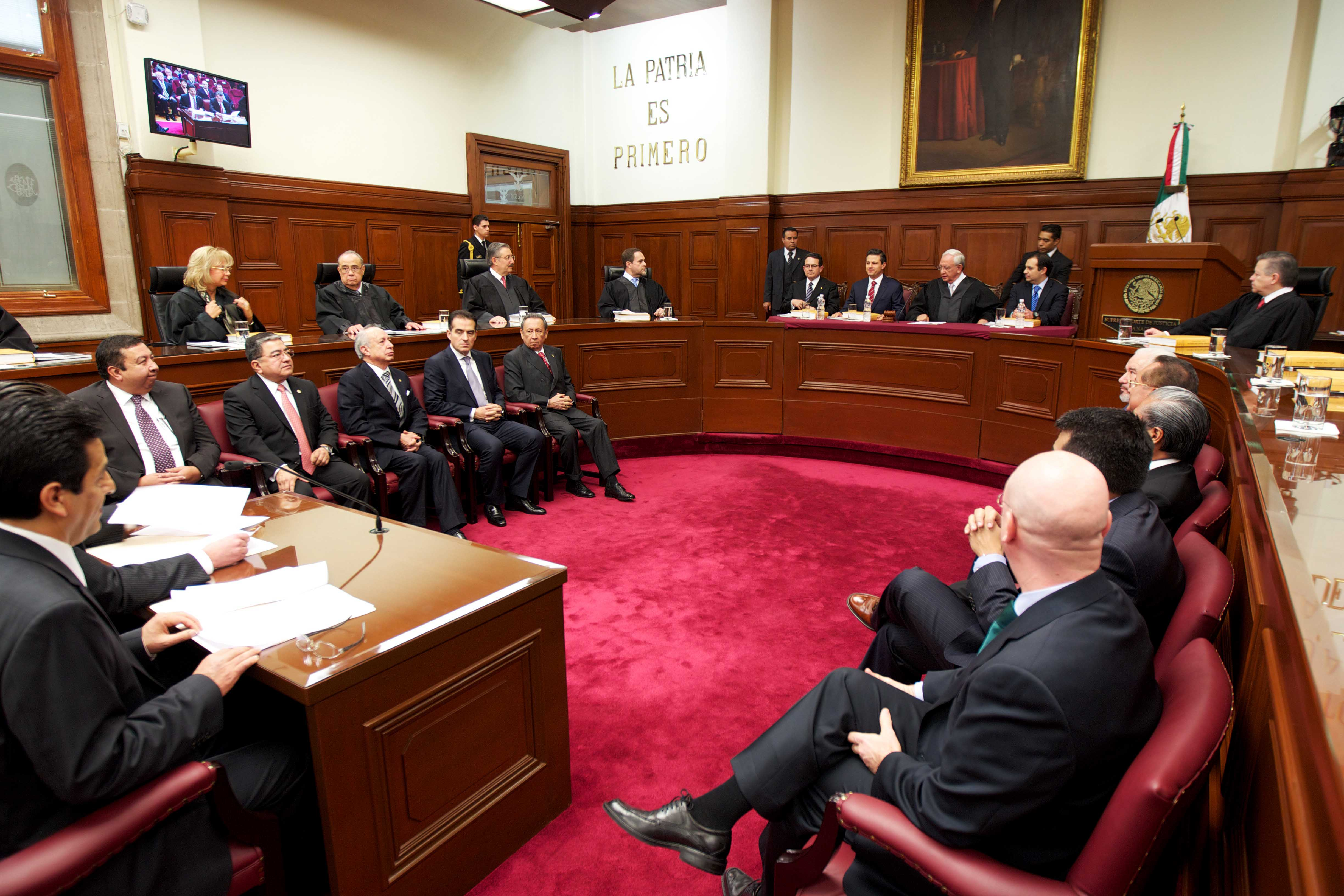 One of the chambers of the Mexican Supreme Court